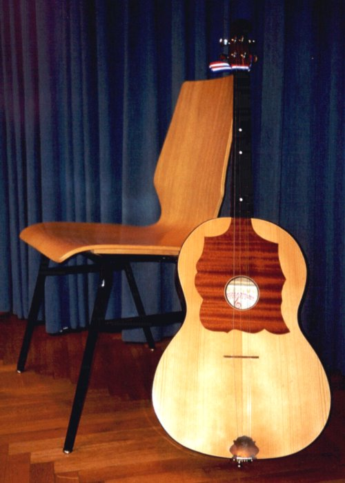 Celo, a Croatian instrument used in tamburica ensembles. Size compared to that of a chair.